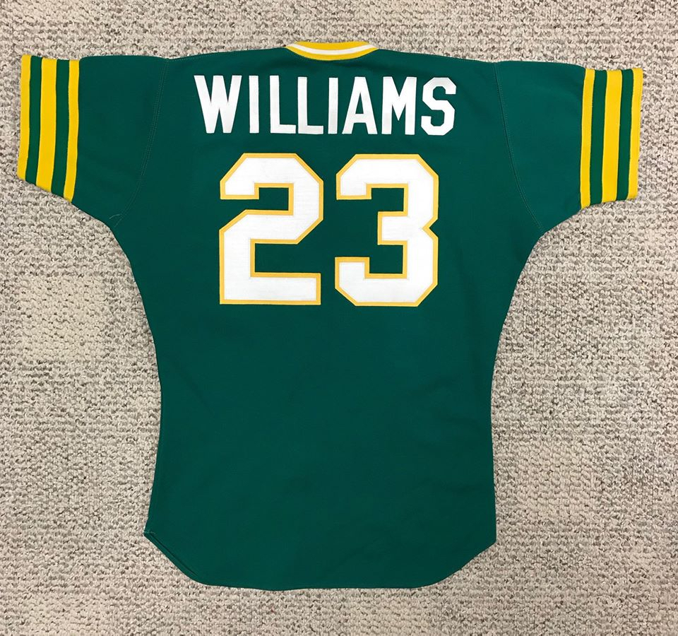 1975 Oakland Athletics #23 Billy Williams road jersey restored and photographed by William F. Henderson who may be contacted through his website at thedream.shop